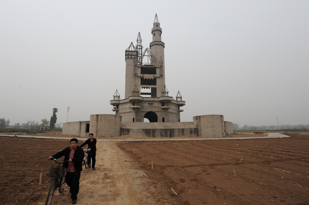 The abandoned theme-park "Wonderland" near Beijing.